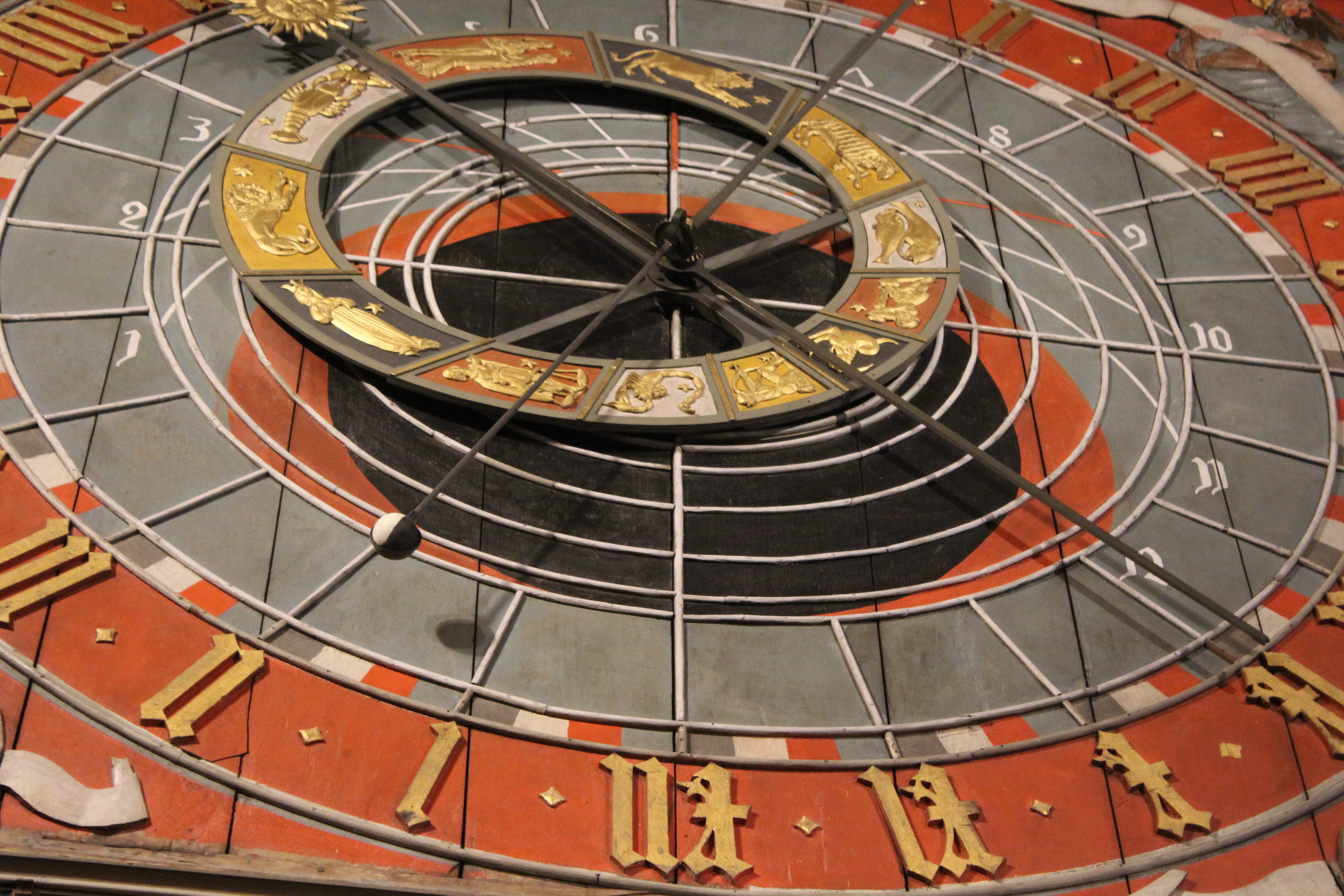 Lund, the cathedral, astronomical clock, detail